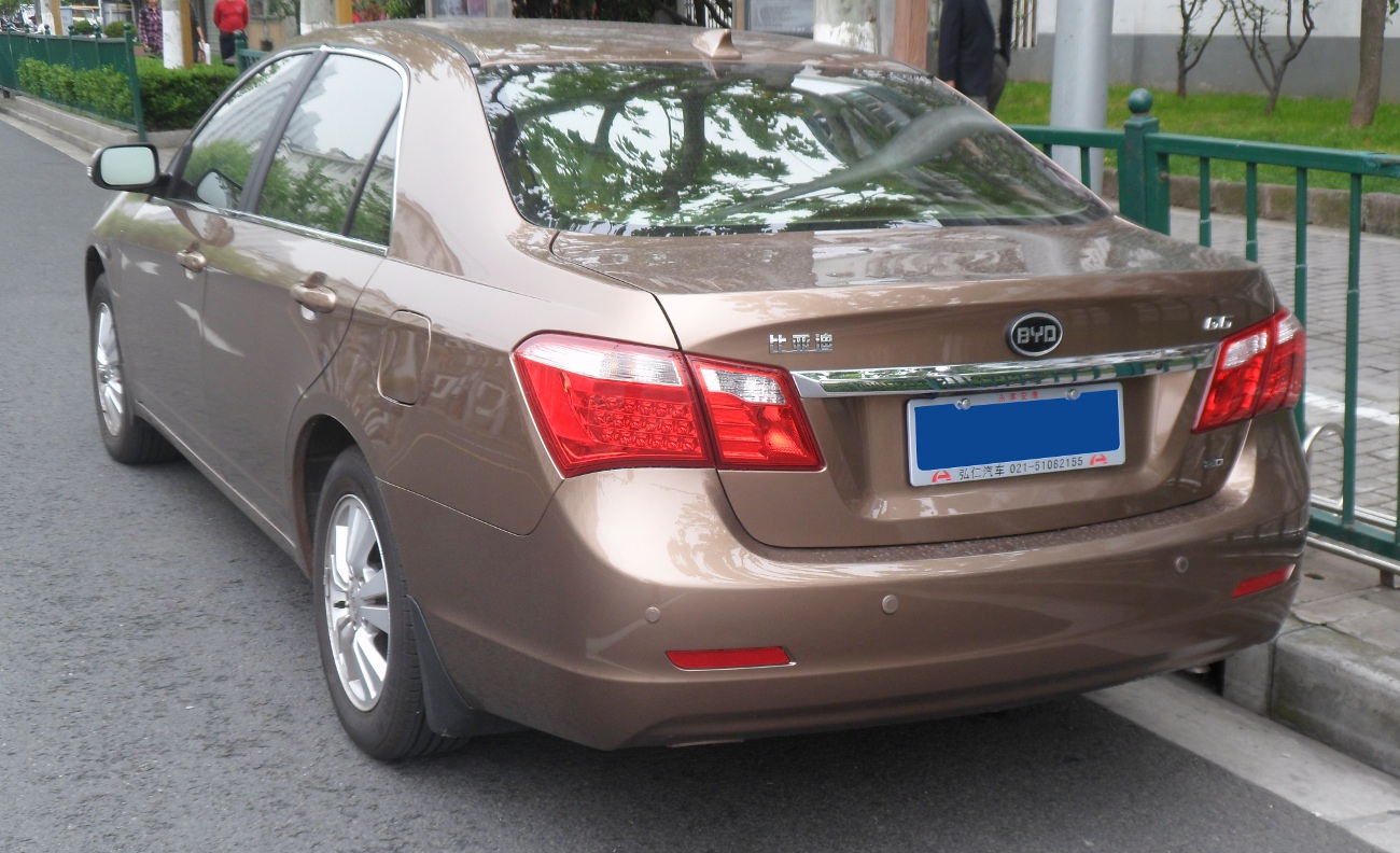 BYD G6 photographed in Shanghai, China.